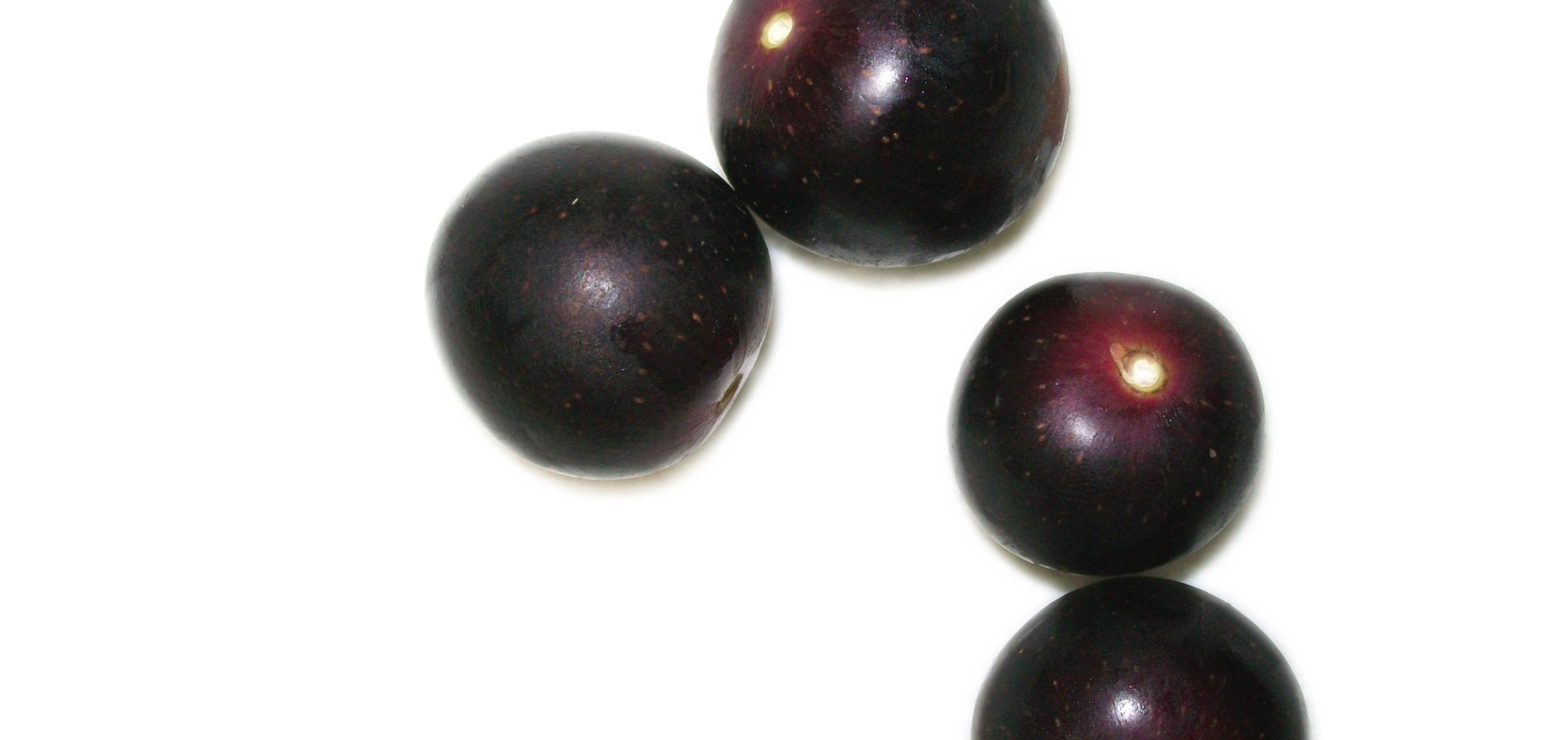 Muscadines grapes from North Carolina, summer 2010.